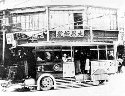 Trolleybus in Shanghai, China, circa 1920s